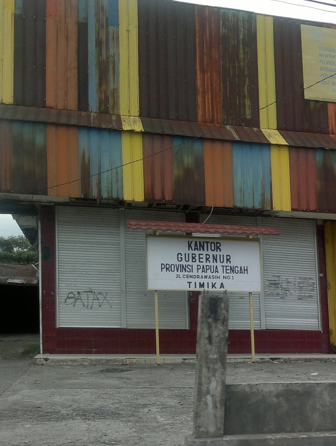 Planned location for the suture governor of the planned province of Central Papua in Timika, Papua